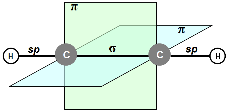 sp bond